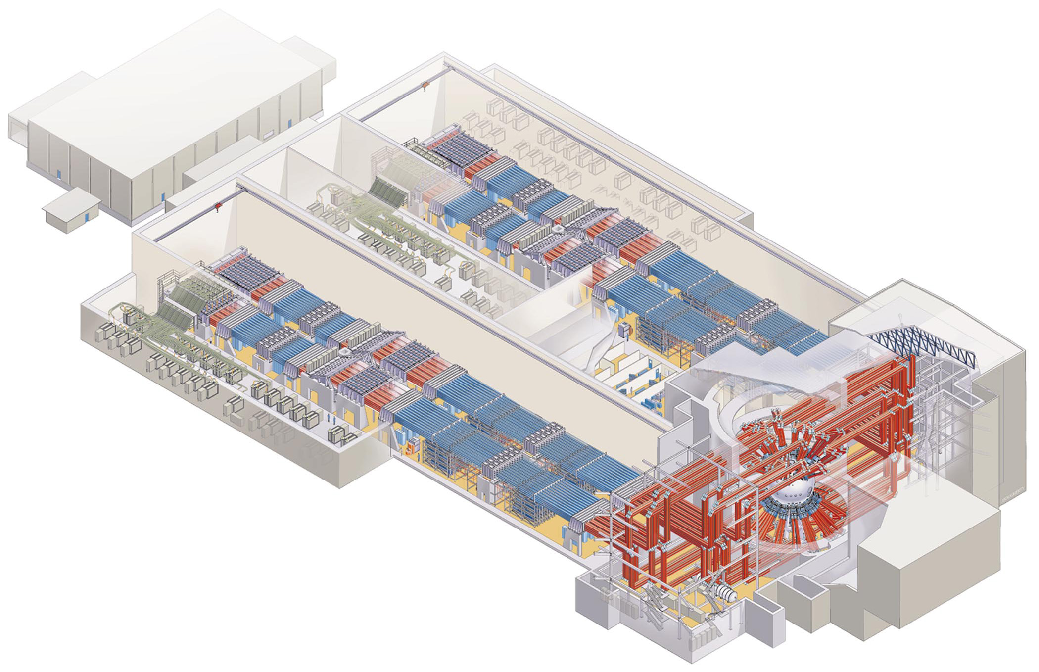 Layout of the NAtional Ignition Facility. Image taken from a LLNL publication.